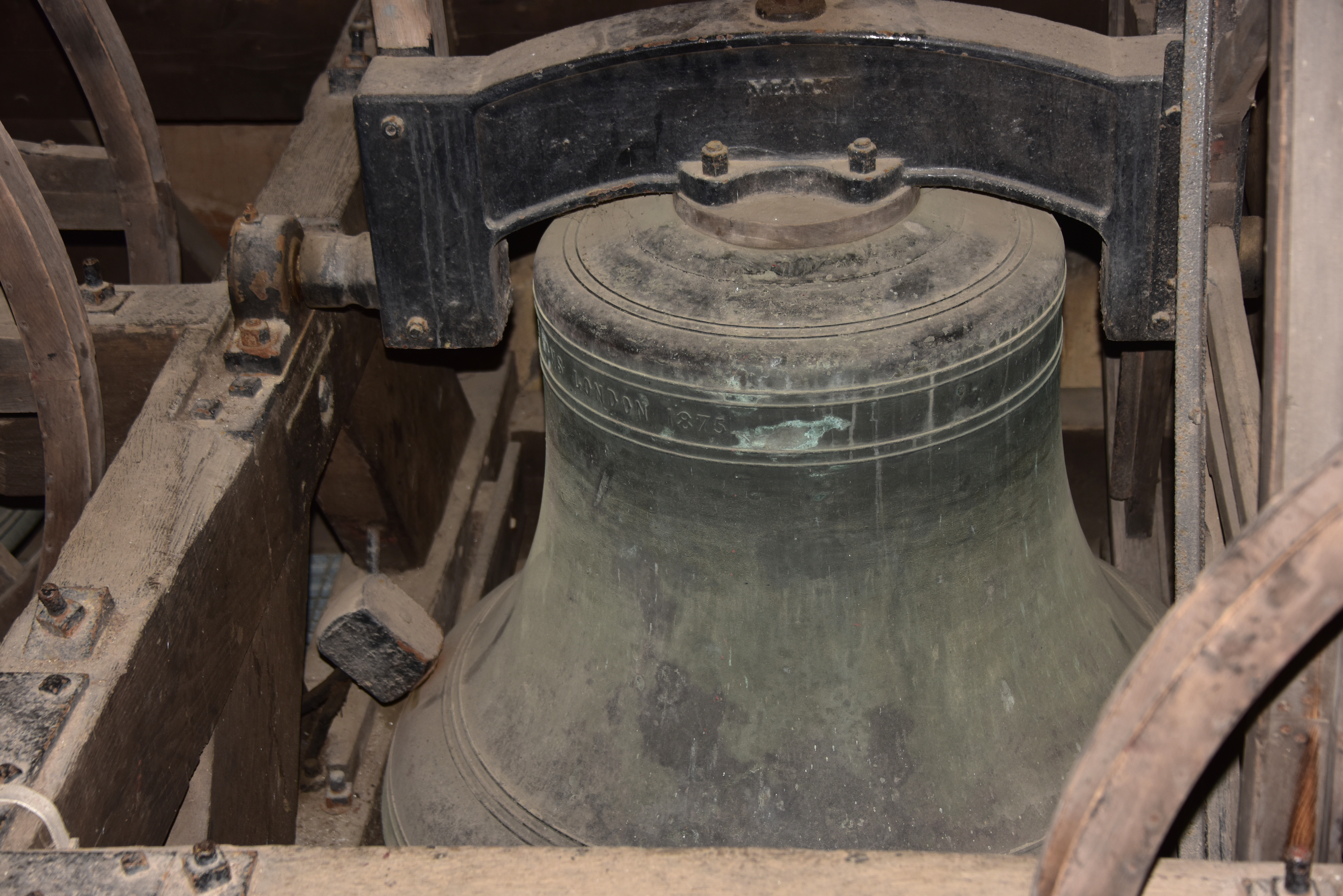 Church bells in the tower of All Saints' Church, Gresford, Wales, which form one of the "Seven Wonders of Wales."